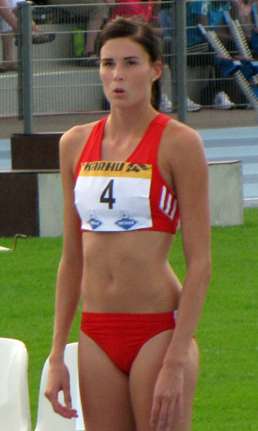 Finnish high jumper Mari Sepänmaa at Lappeenranta Games, Finland, 2010.